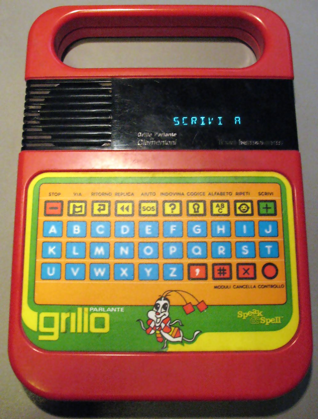 The Italian version of the Speak & Spell game, called "Grillo Parlante"